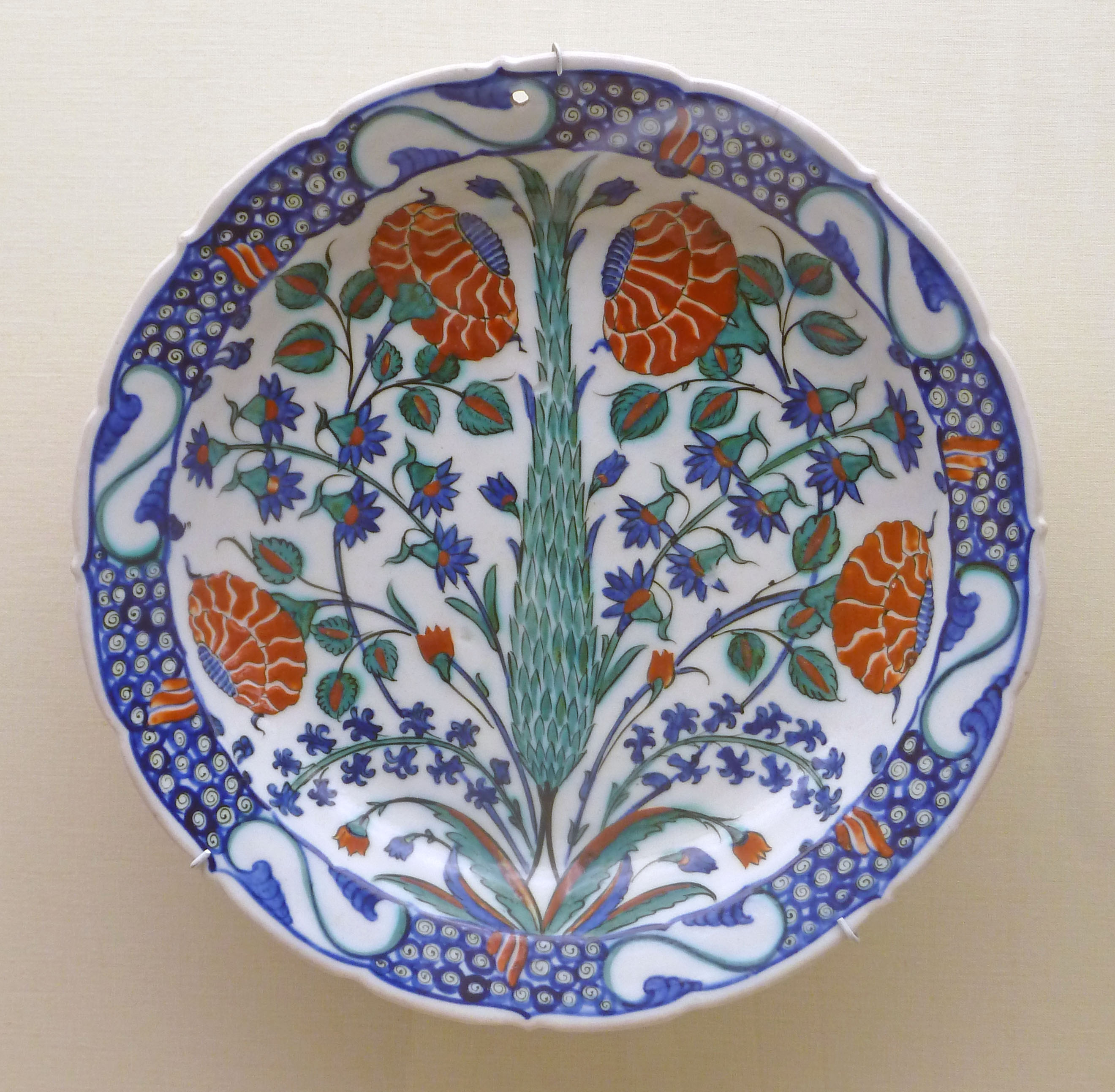 Dish with cypress tree decorations, Iznik, Turkey